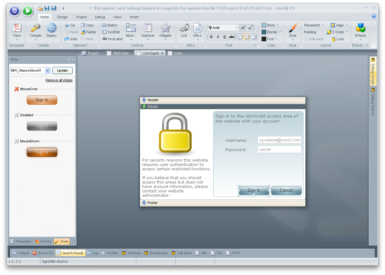 Screenshot of the Morfik AppsBuilder 2.1 visual designer with a form being worked on. The form displayed is a login form for a website and uses one of the icons from the tango-rrze project as an illustration.